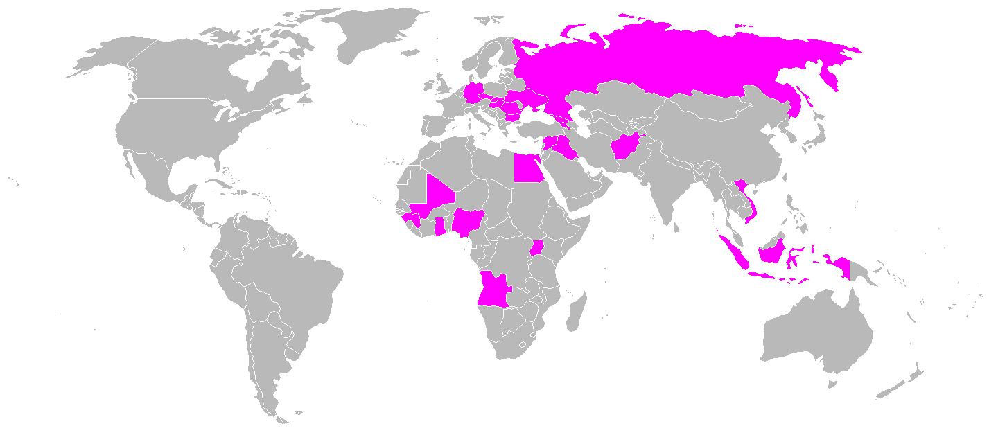 World map of Aero L-29 Delfin operators